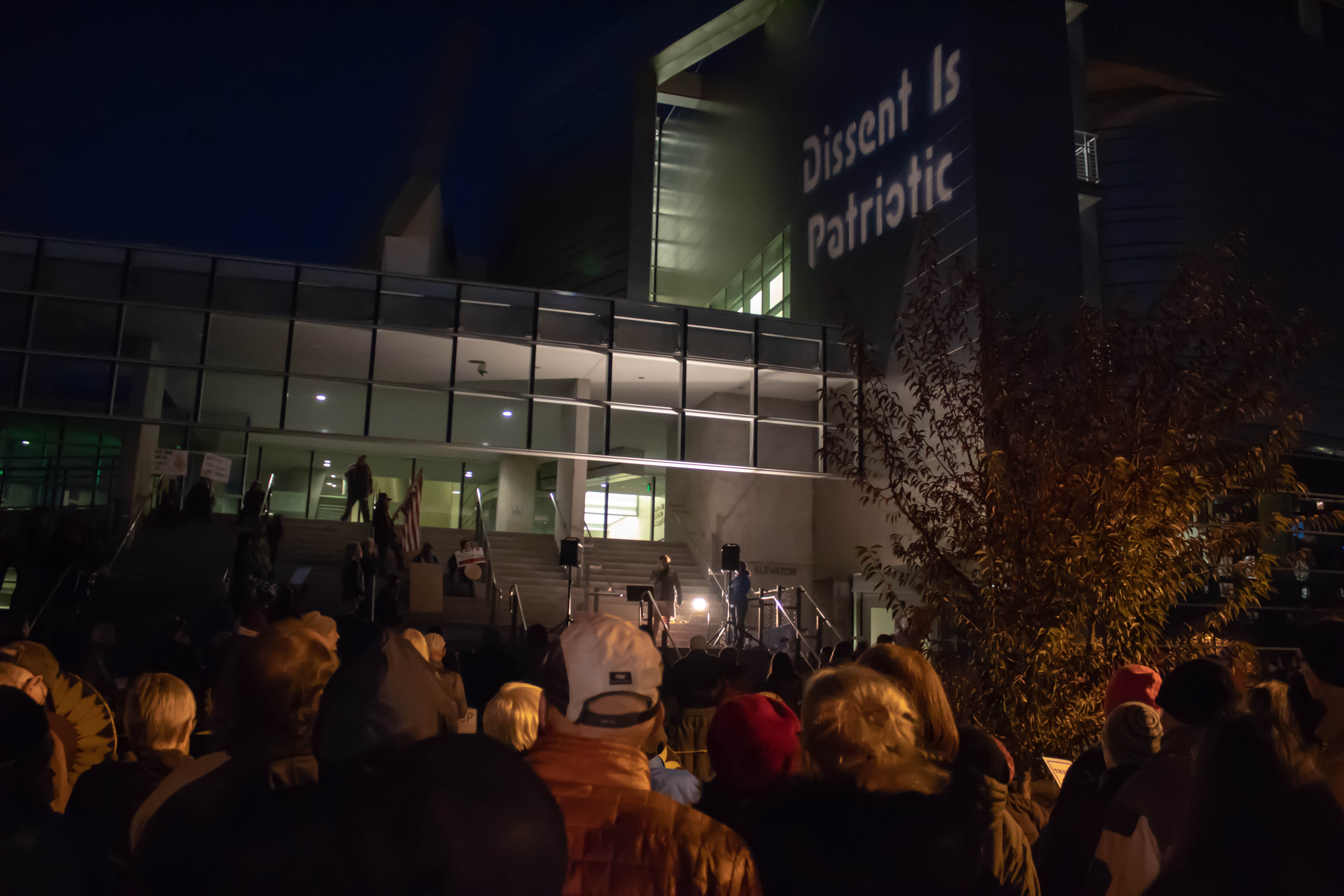 Nobody Above the Law Constitutional Crisis Rally